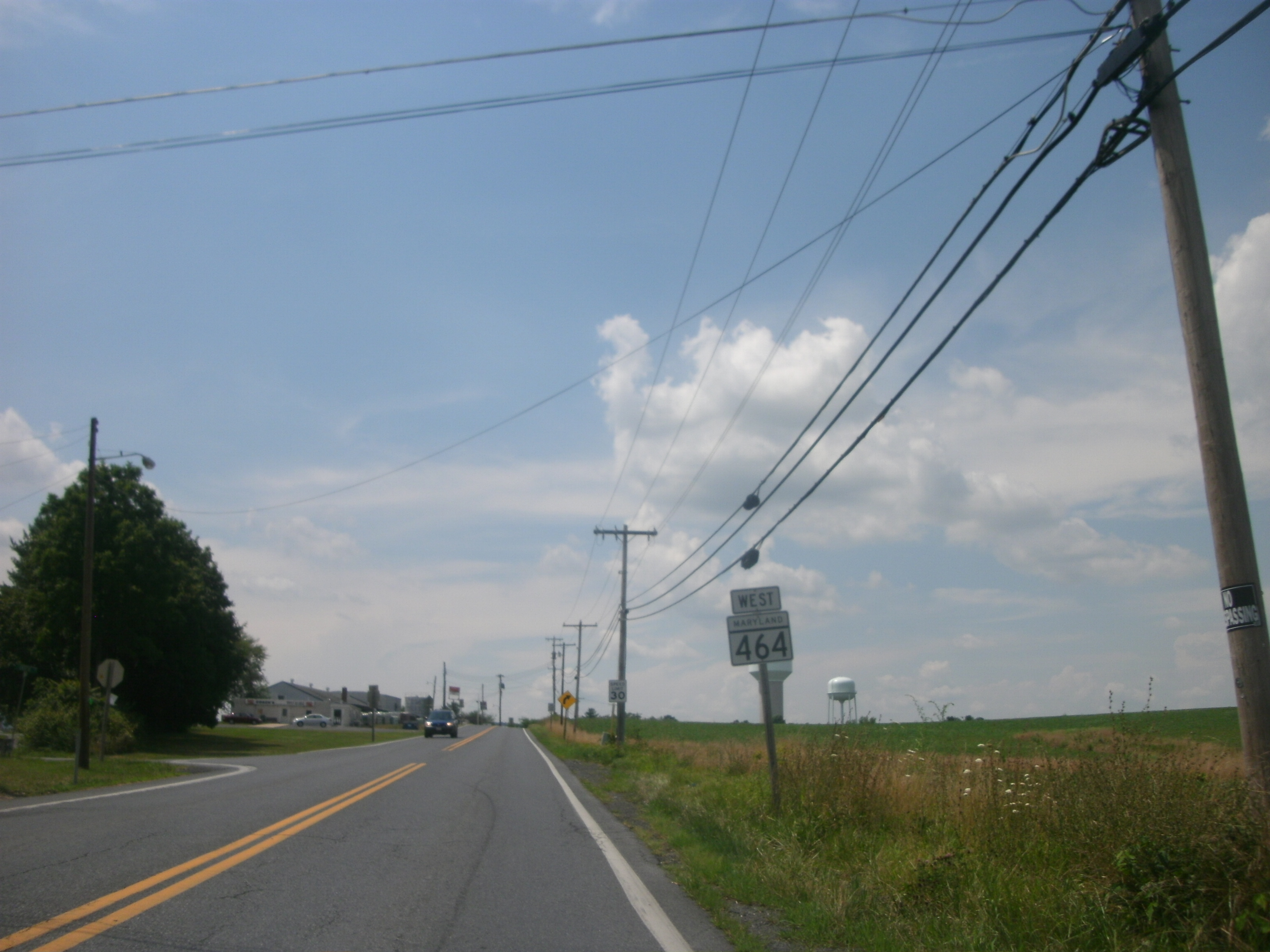 Maryland Route 464 westbound through the city of Brunswick